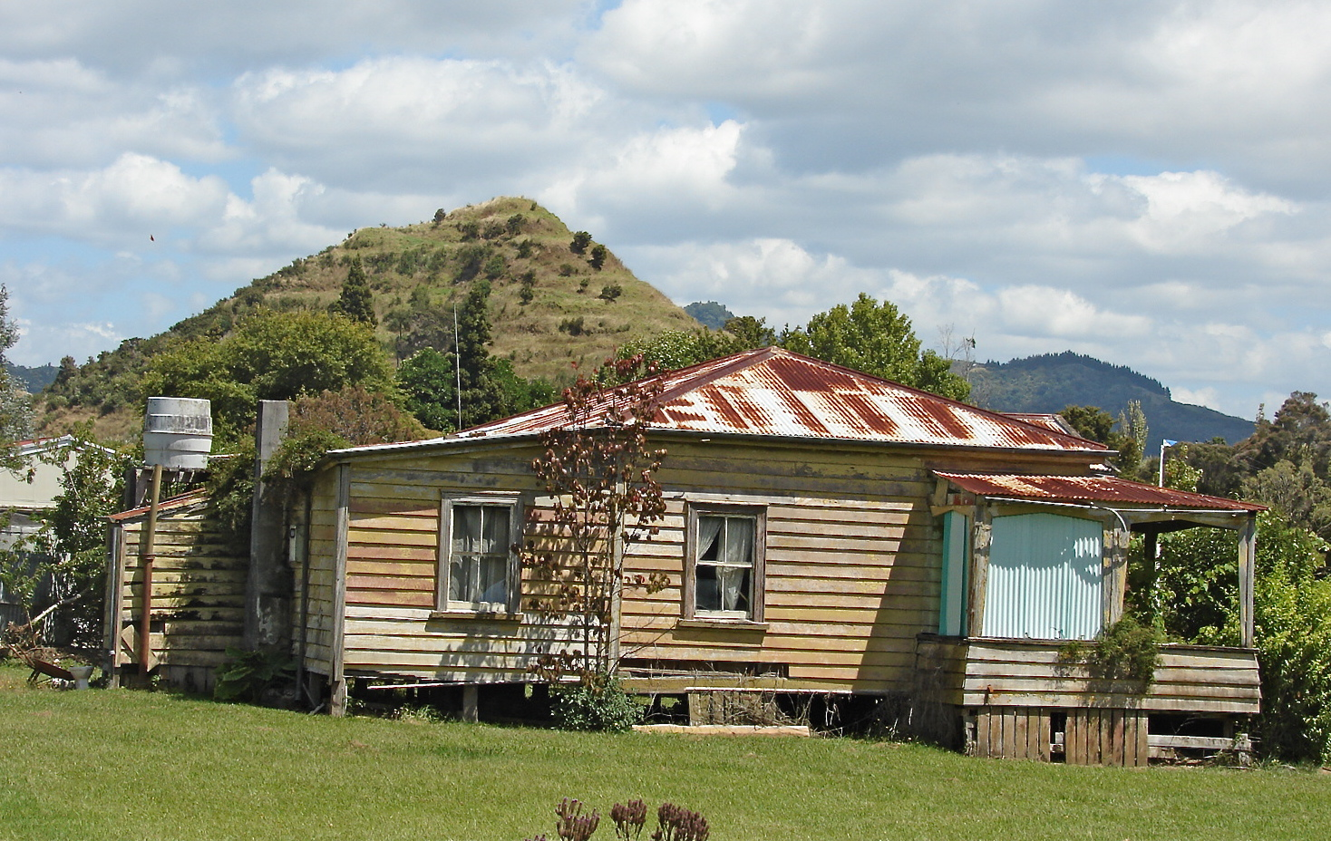 The conical hill behind the old house is the site of a former pa.